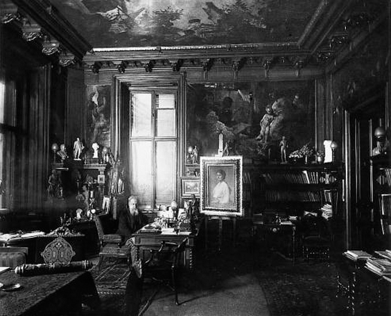 Nikolaus Dumba (1830-1900), Greek-Austrian industrialist, in his office in the Palais Dumba in Vienna.